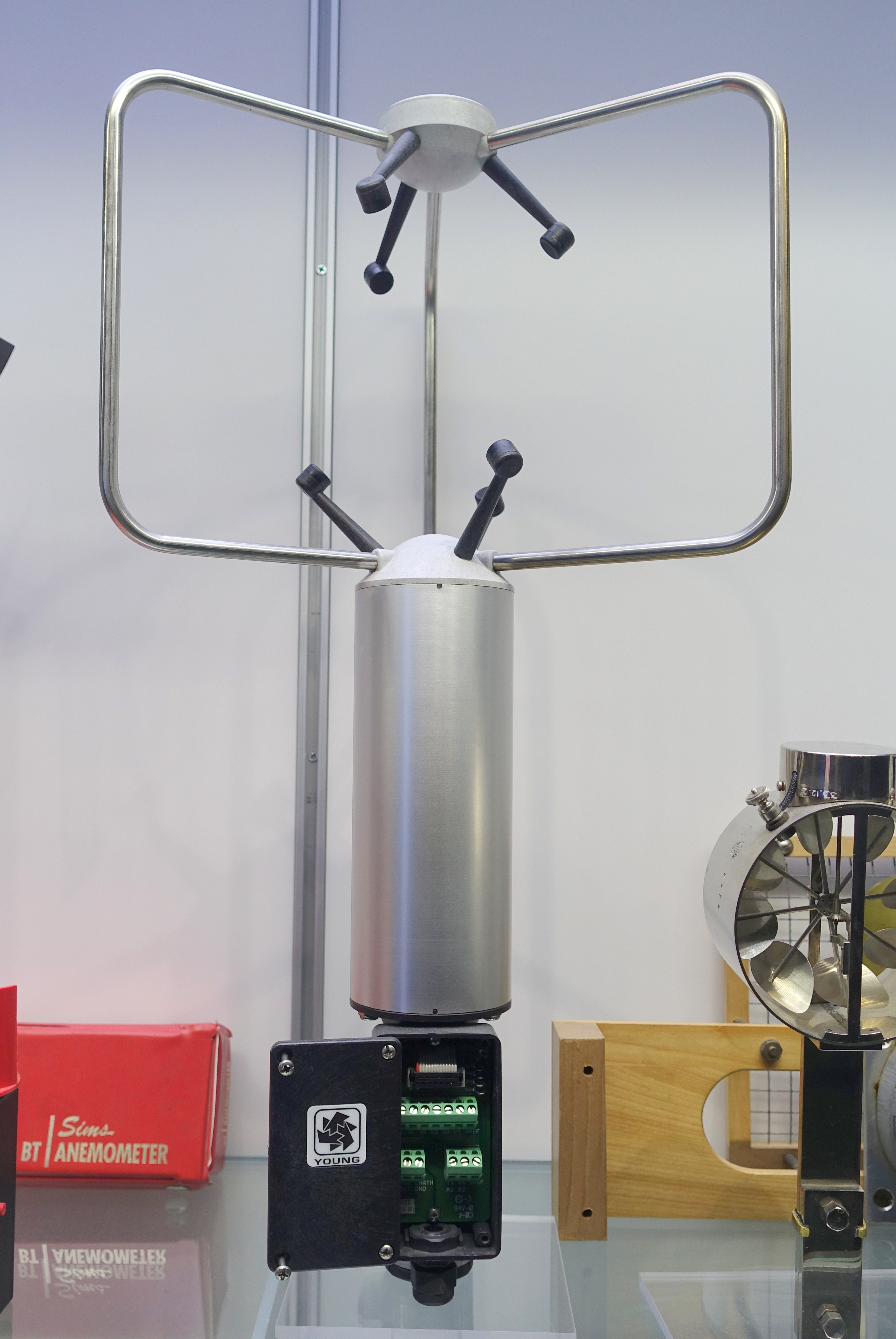 Exhibit in the Museum of Science and Industry, Chicago, Illinois, USA.